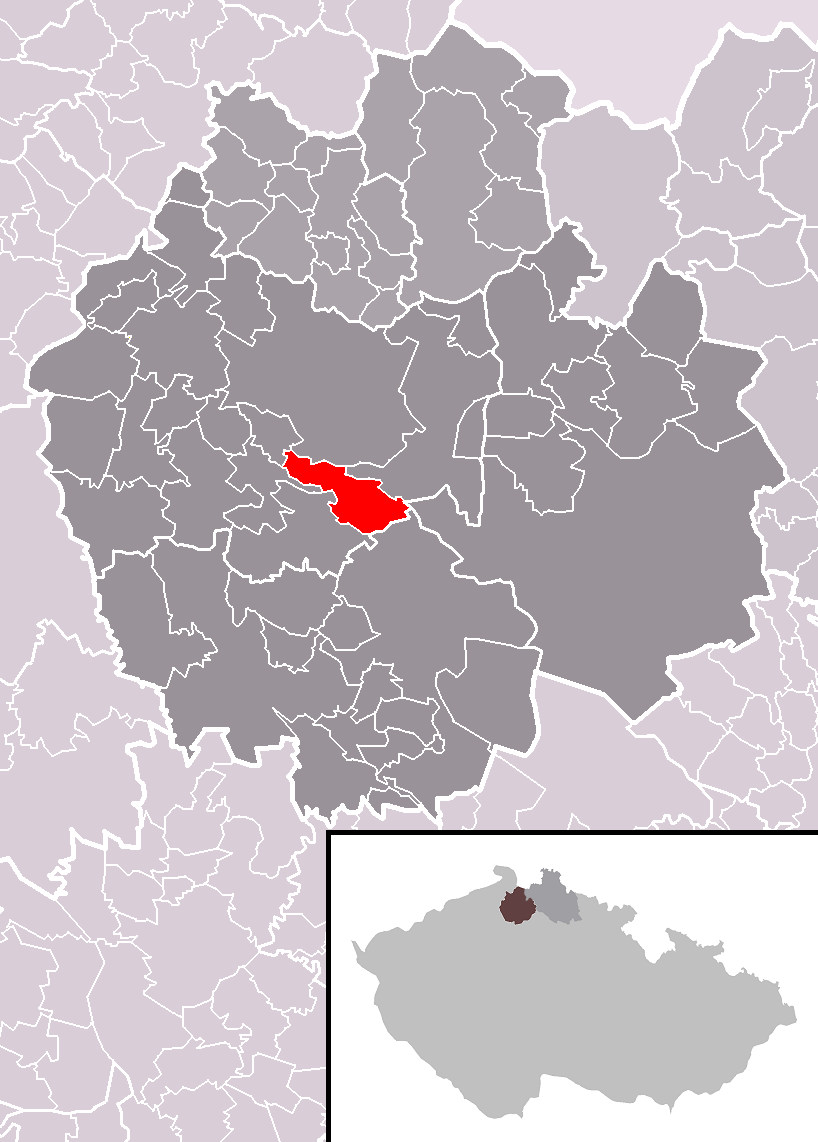 Location of Provodín municipality within Česká Lípa District and administrative area of Česká Lípa as a Municipality with Extended Competence.